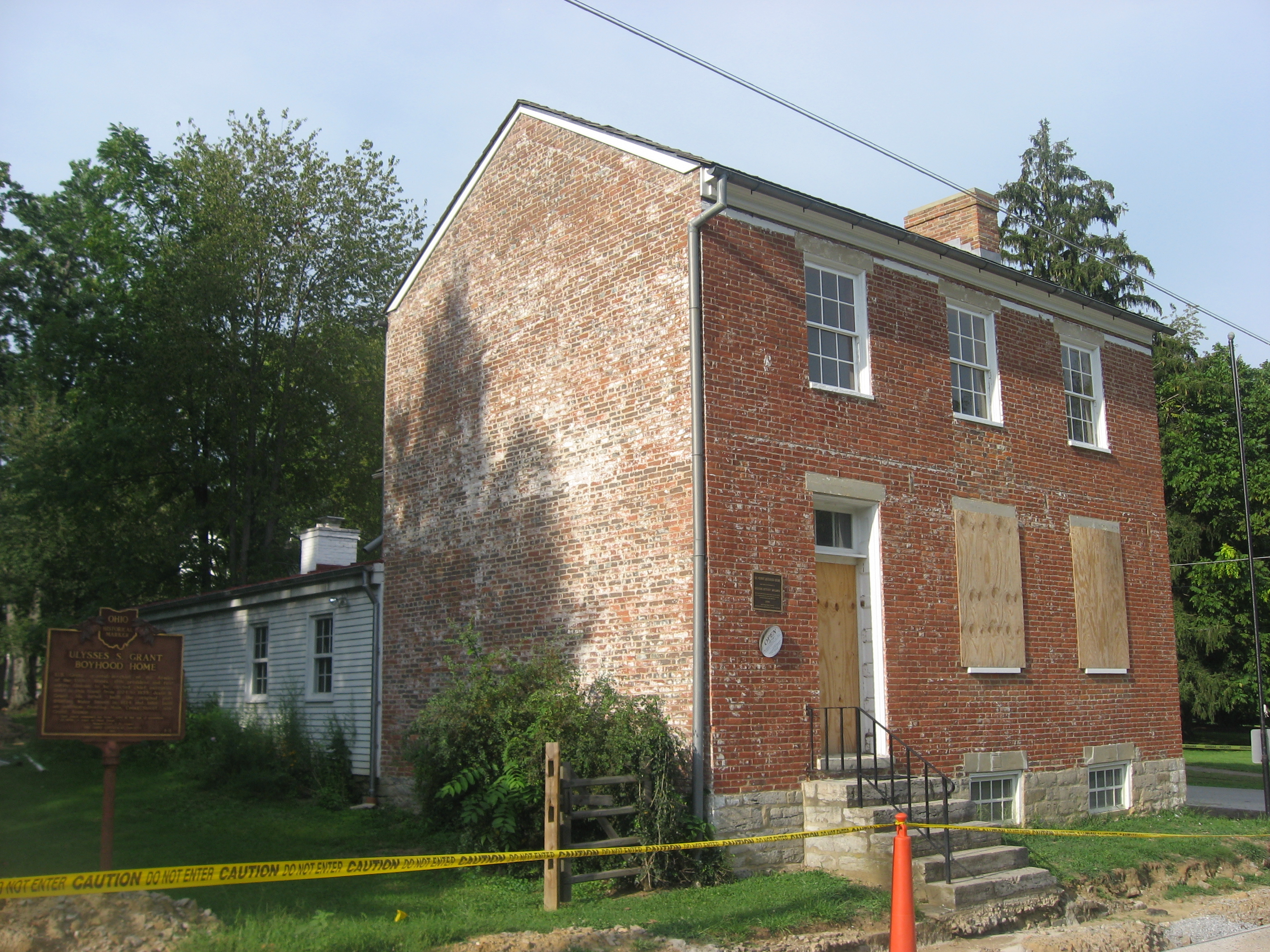 Front and western side of the Grant Boyhood Home, located at 219 E. Grant Avenue in Georgetown, Ohio, United States. Built in 1823 and the childhood home of President Ulysses S. Grant, it has been declared a National Historic Landmark. When the photo was taken, it was undergoing reconstruction.